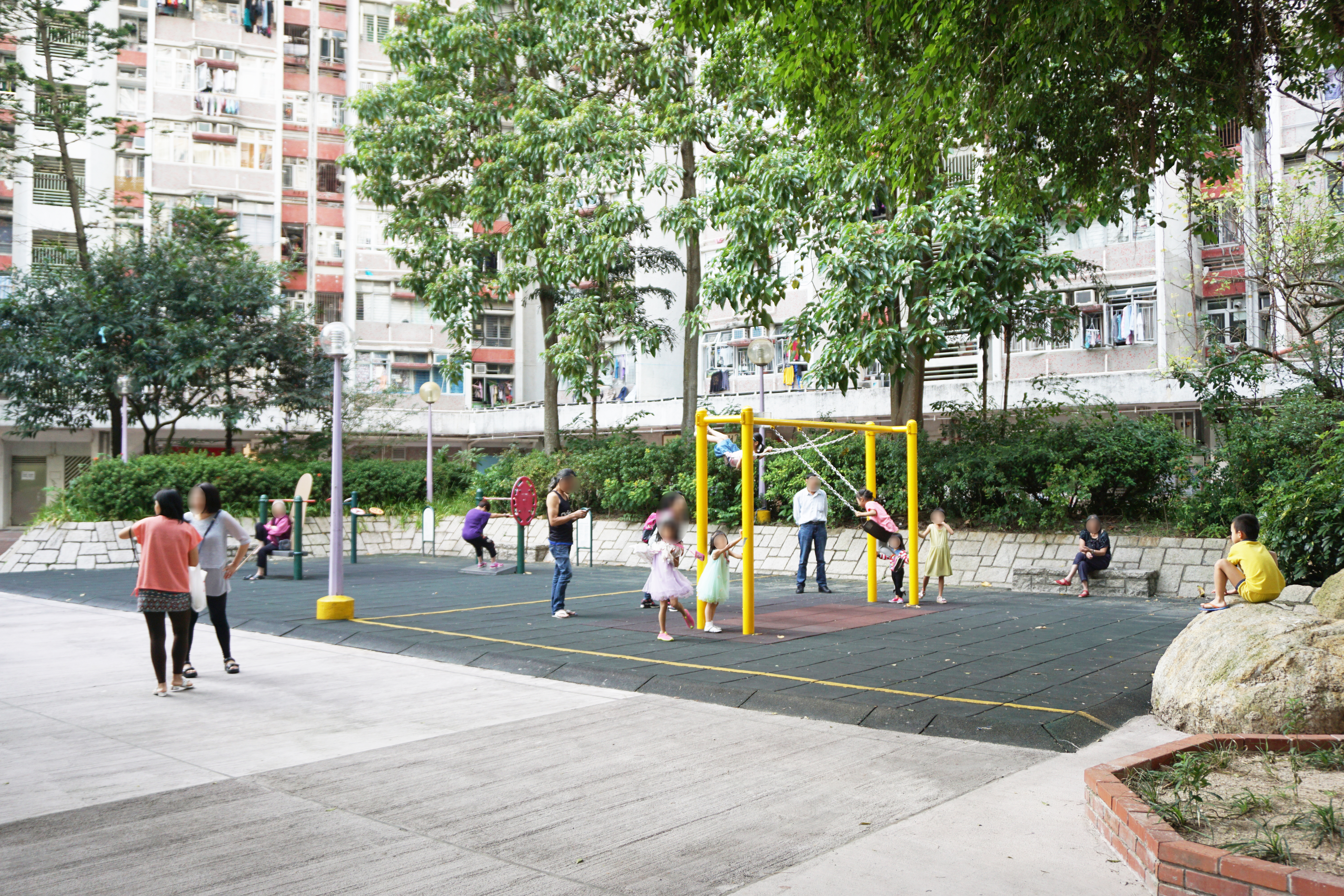 Chuk Yuen North Estate in Wong Tai Sin, Hong Kong.